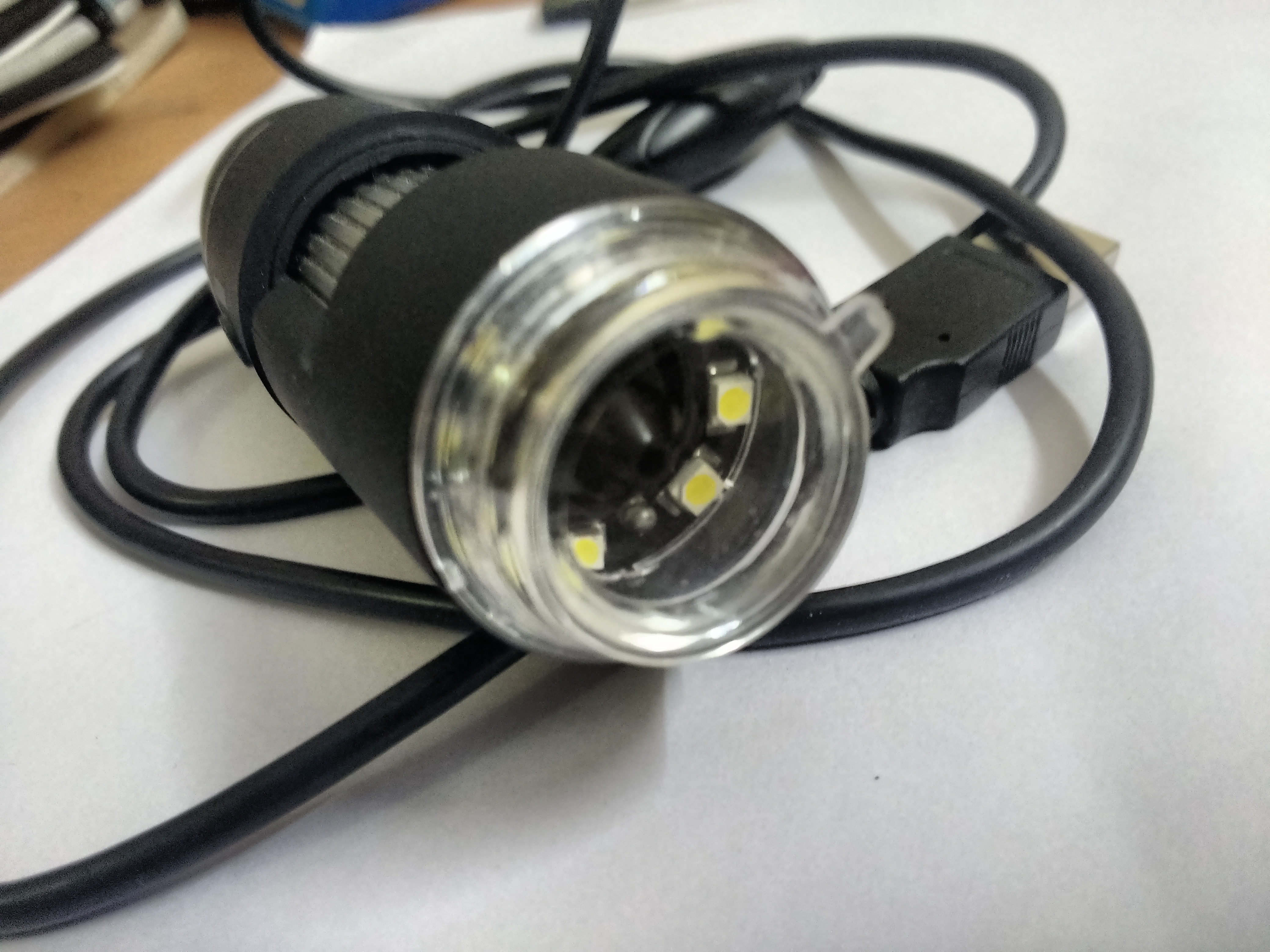 This is image of a digital USB microscope. Magnification of 100x can be achieved using this.